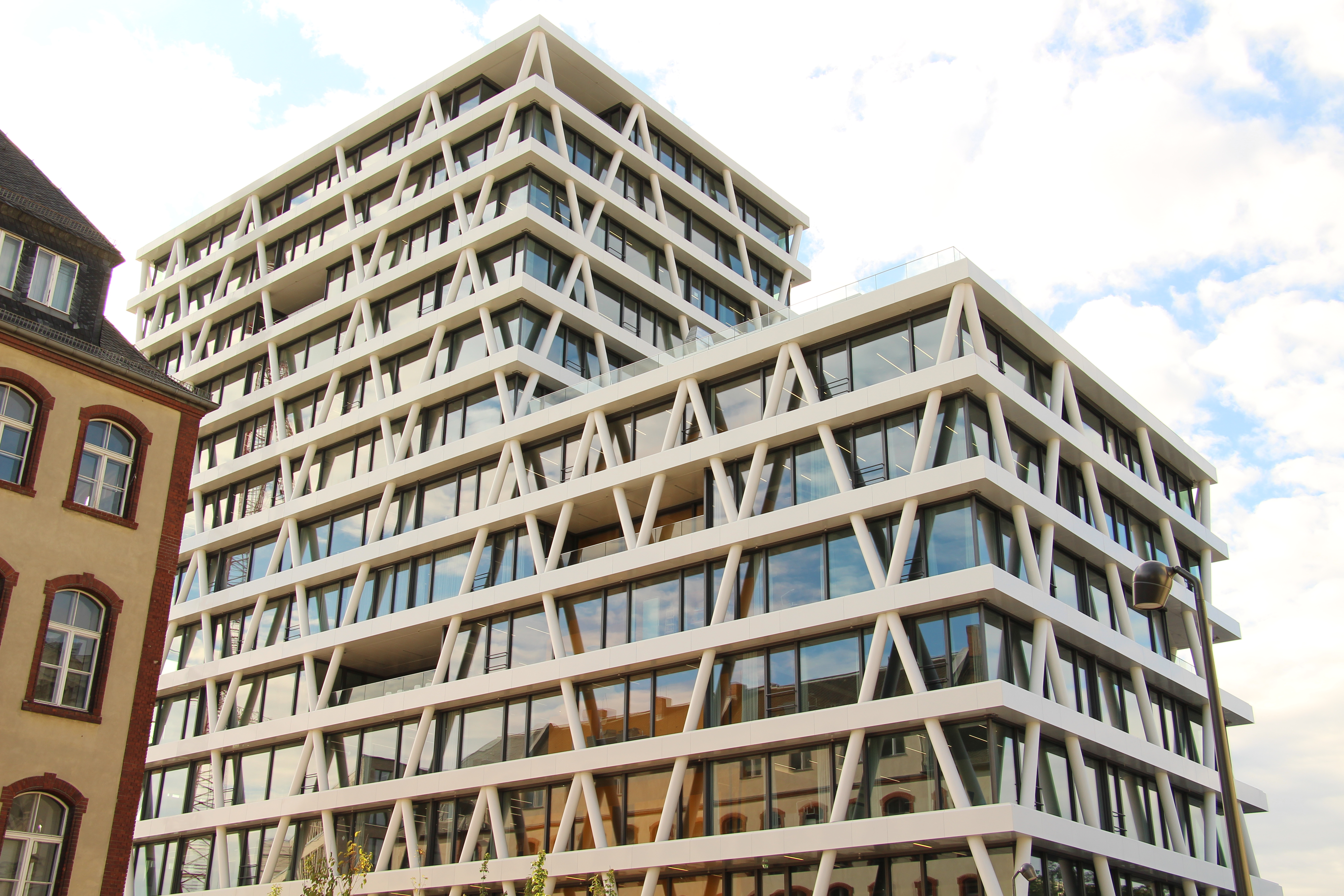 50Hertz Transmission GmbH headquarters in the new Europacity district. Heidestraße, Berlin. (Arch. LOVE architecture and urbanism ZT GmbH 2014–2016).